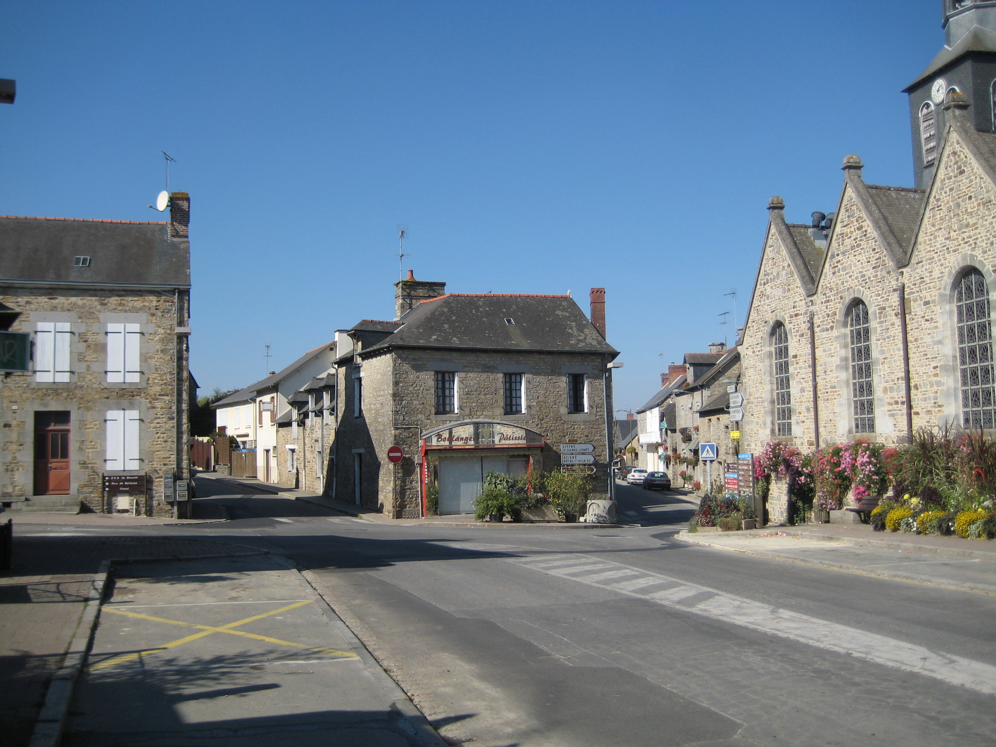 La Bouëxière